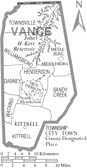 Map of Vance County, North Carolina, United States with township and municipal boundaries